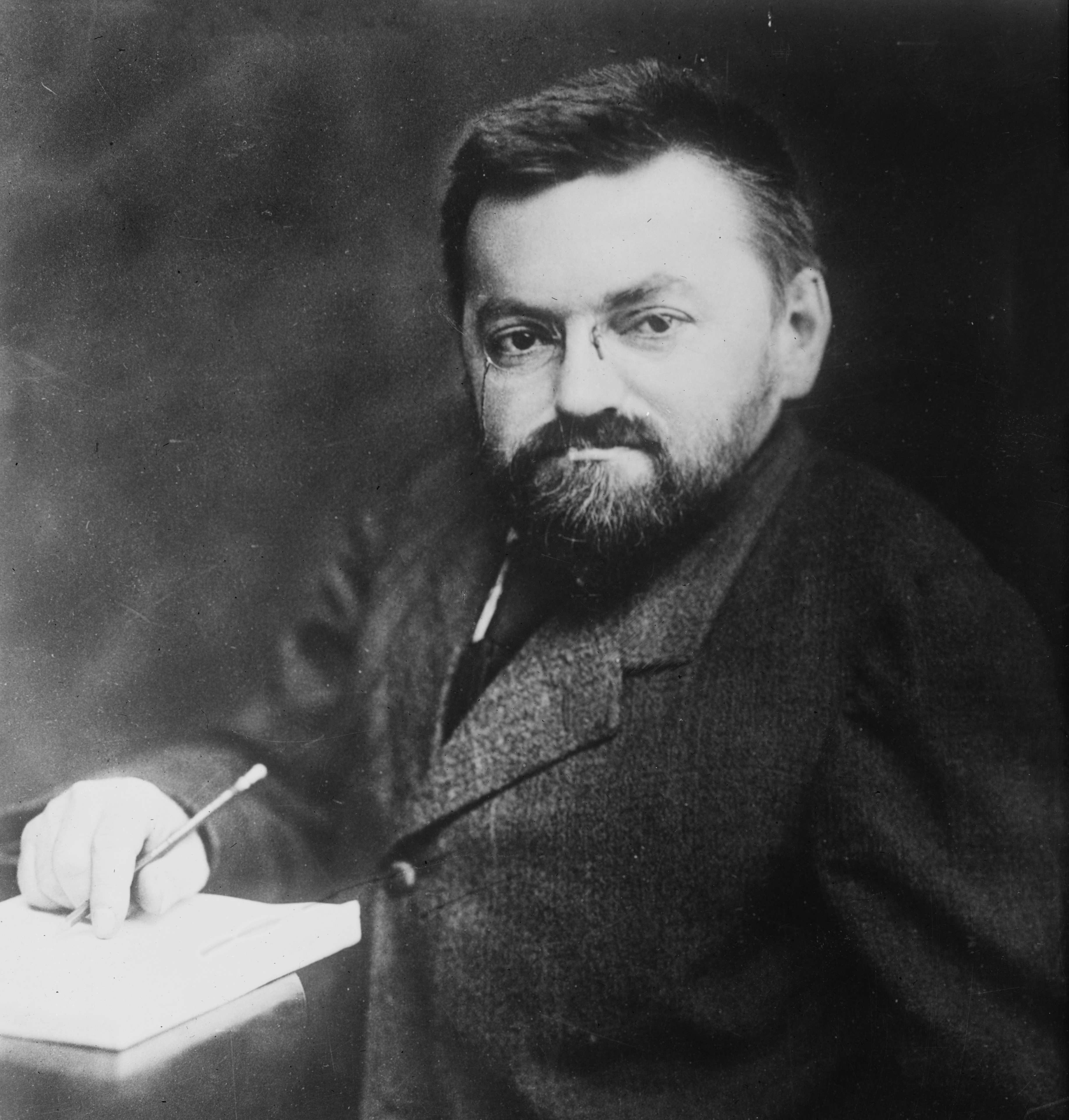 C. P. Steinmetz (LOC) Bain News Service,, publisher. C.P. Steinmetz [between ca. 1910 and ca. 1915] 1 negative : glass ; 5 x 7 in. or smaller. Notes: Title from unverified data provided by the Bain News Service on the negatives or caption cards. Forms part of: George Grantham Bain Collection (Library of Congress). Format: Glass negatives. Repository: Library of Congress, Prints and Photographs Division, Washington, D.C. 20540 USA, General information about the Bain Collection is available at Persistent URL:Call Number: LC-B2- 3054-5